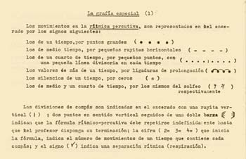 Students, clap, repeating by imitating the rhythm made ​​by the teacher or read from a blackboard; written with the proposed spelling or analogs, or later, with the conventional spelling at teacher's discretion.